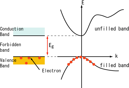 Bandgap of semiconductors